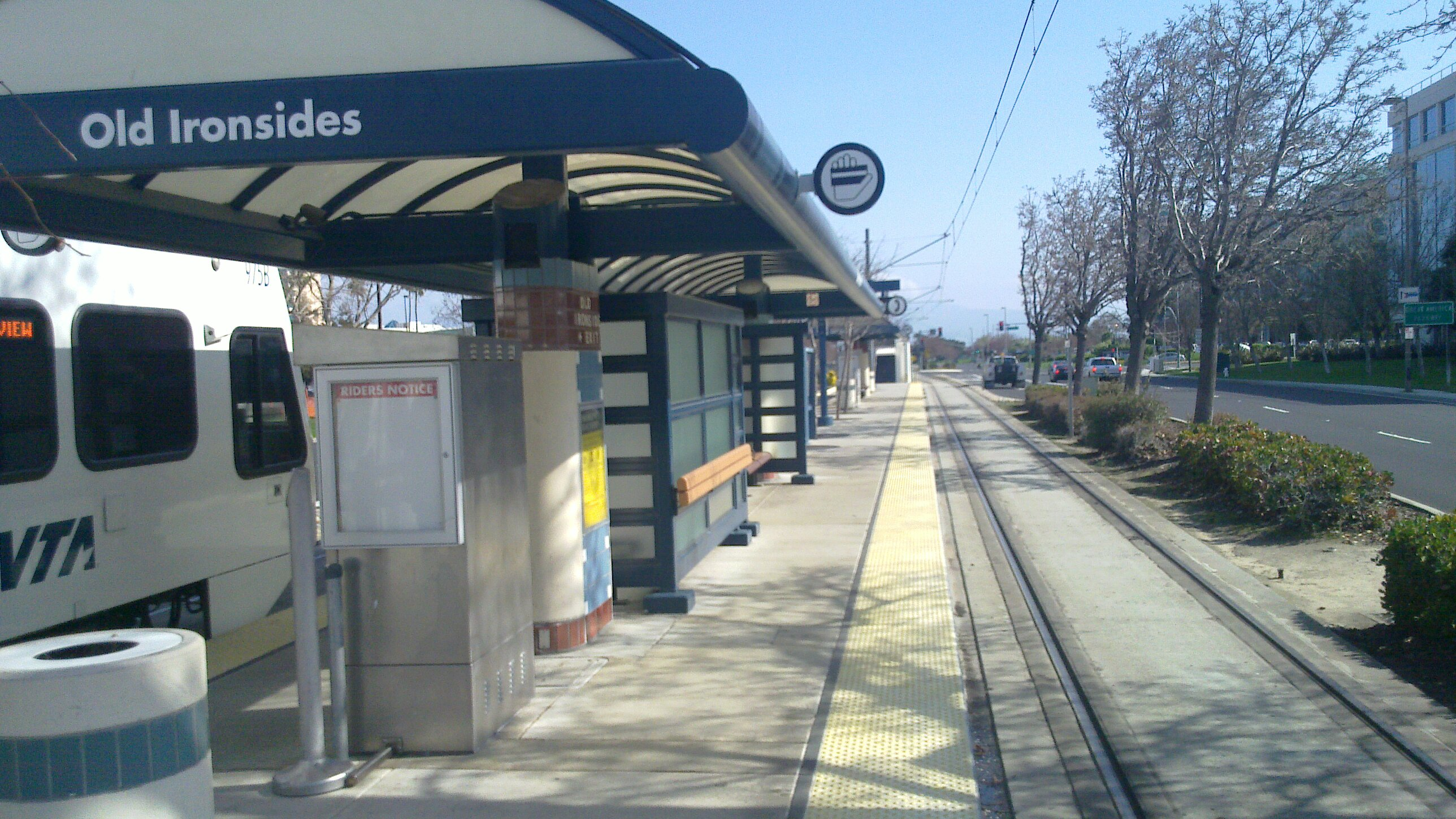 Old Ironsides VTA light rail station, looking east towards Great America, in the Winchester direction. Train viewed is headed to Mountain View